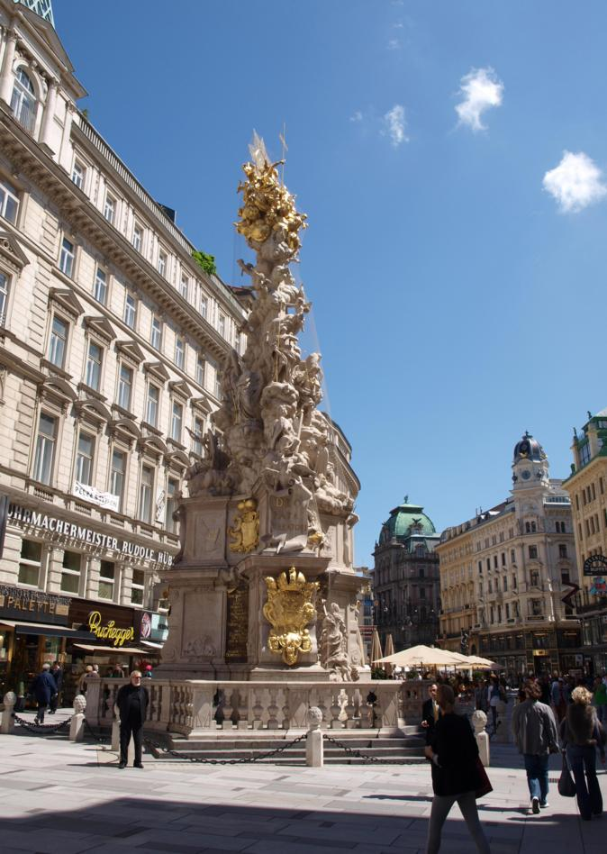 Holy Trinity columns in Vienna